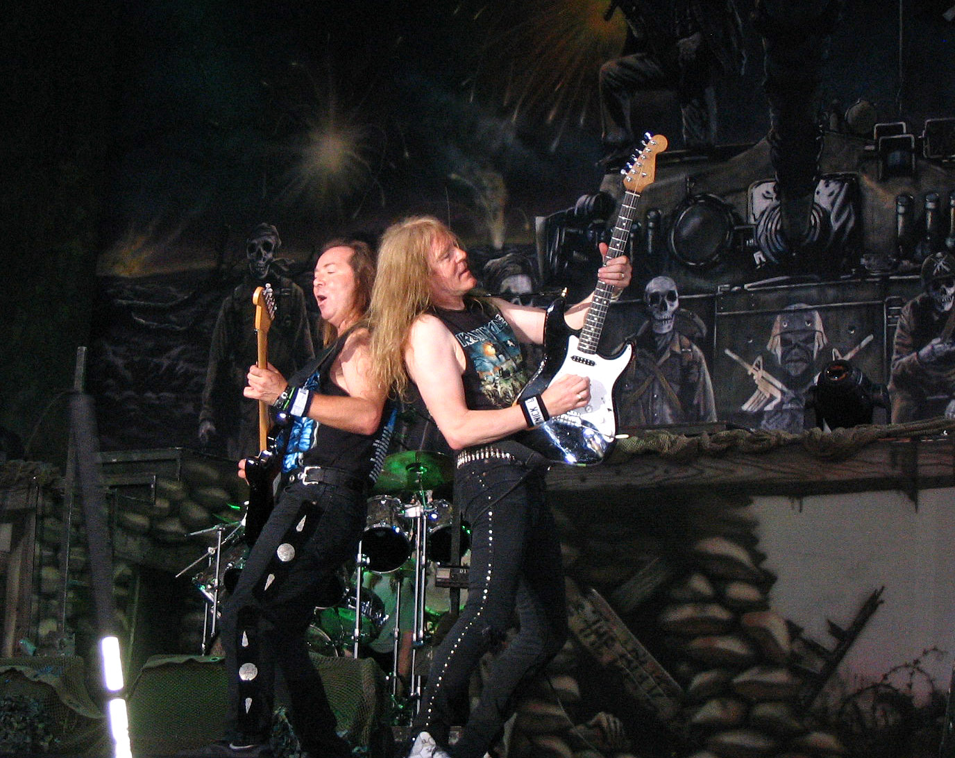 Dave Murray and Janick Gers of Iron Maiden